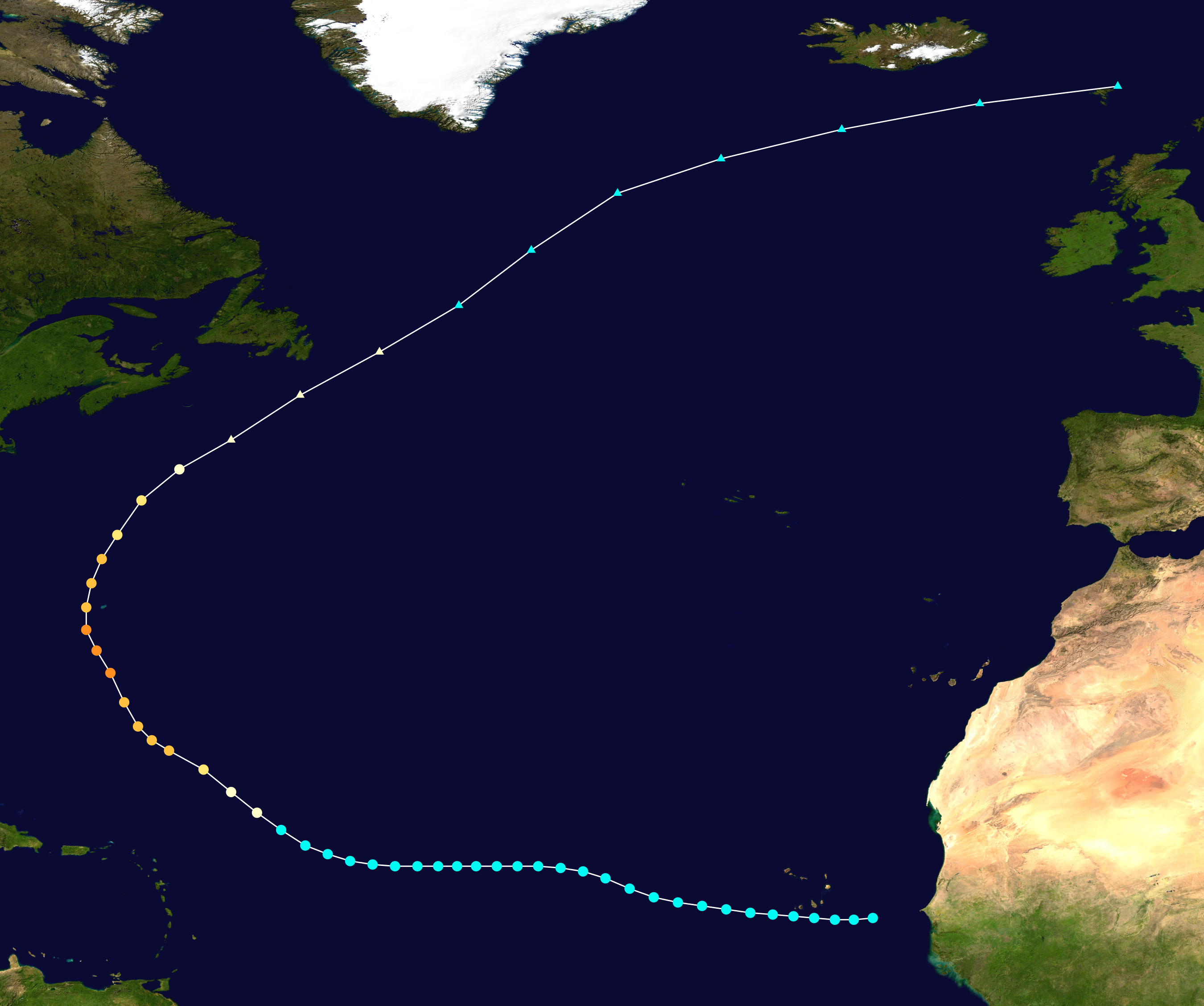 1948 Atlantic hurricane 6 track. Uses the color scheme from the Saffir-Simpson Hurricane Scale.